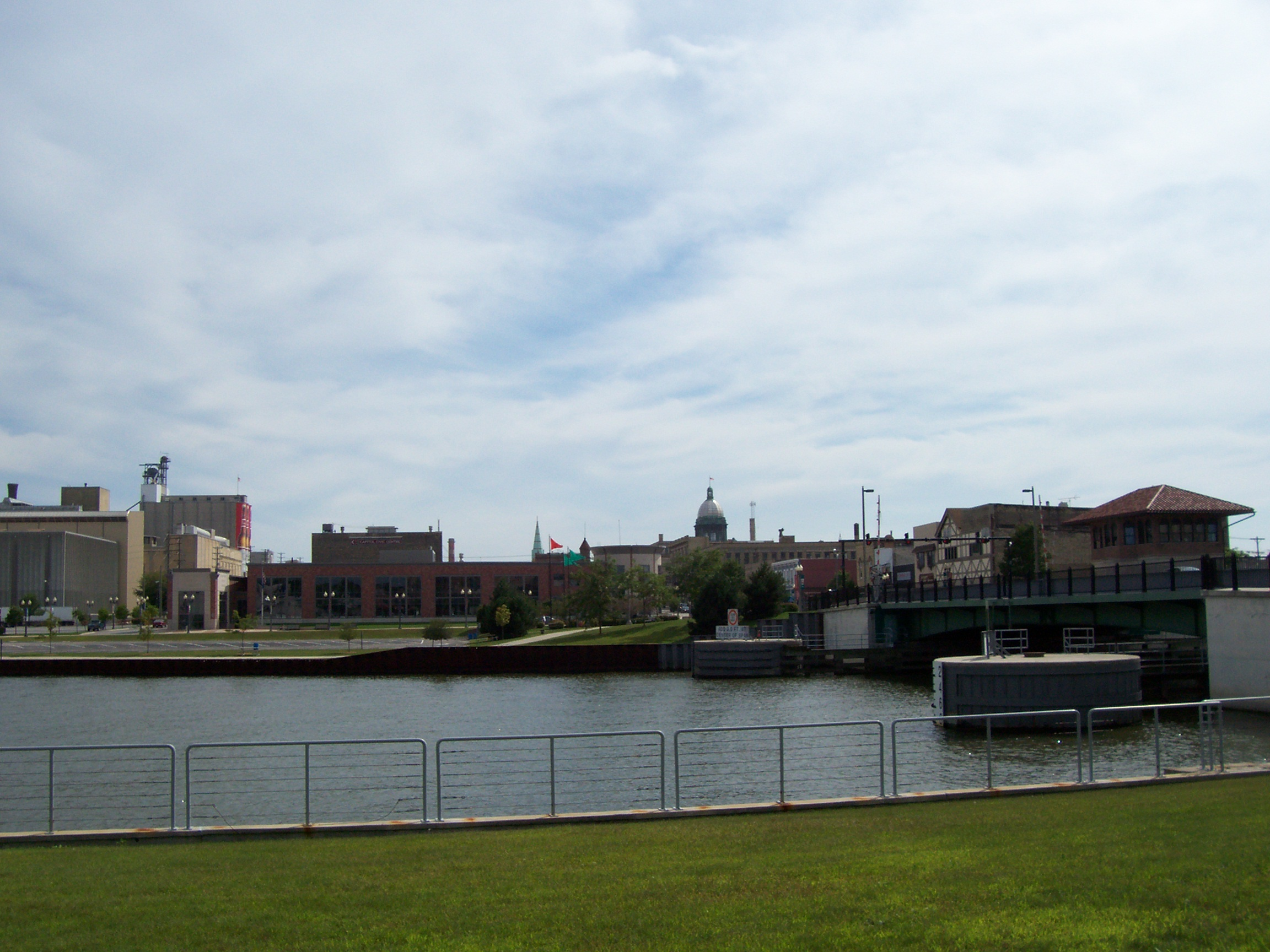 The U.S. Route 10 bridge over the Manitowoc River overlooking downtown Manitowoc, Wisconsin. This image was taken August 27, 2006 by User:Royalbroil Category:Images of Wisconsin highways